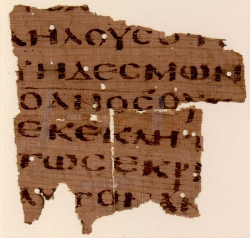 Papyrus 112 recto